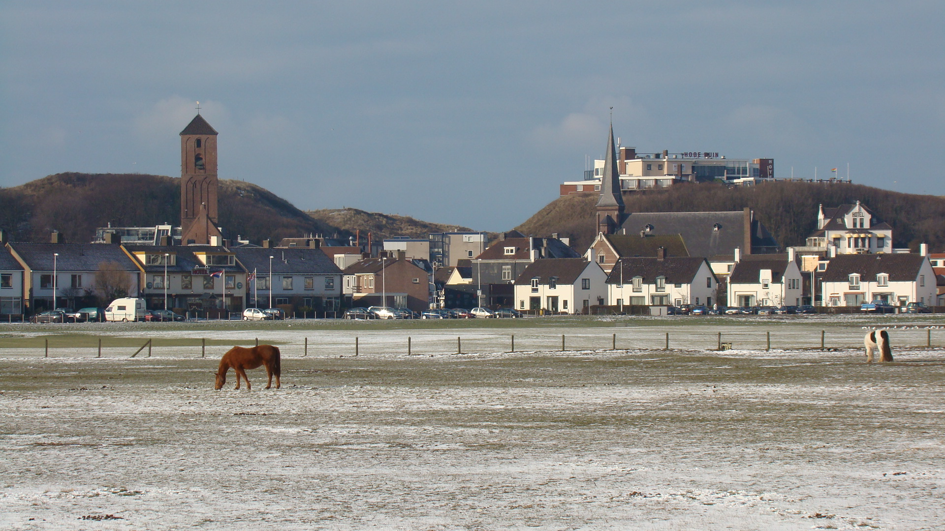 panorama view Wijk aan Zee (Netherlands) in Winter